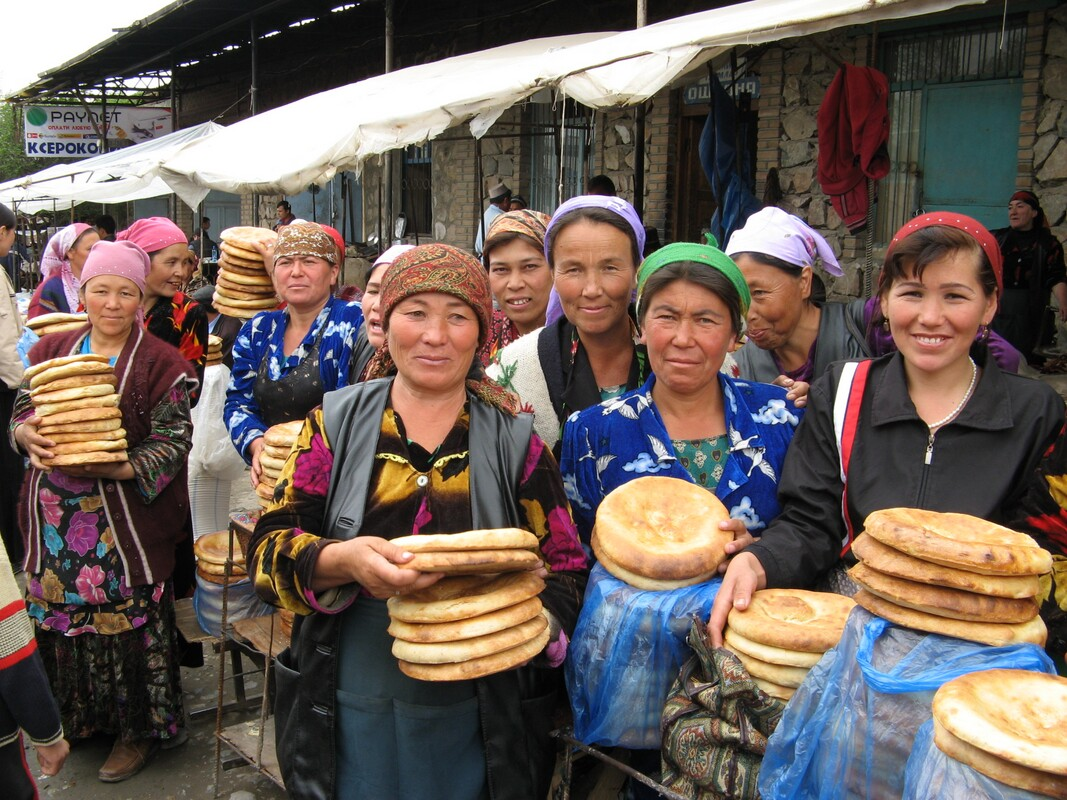 Bread sellers in Urgut (Sunday market), Samarqand province.